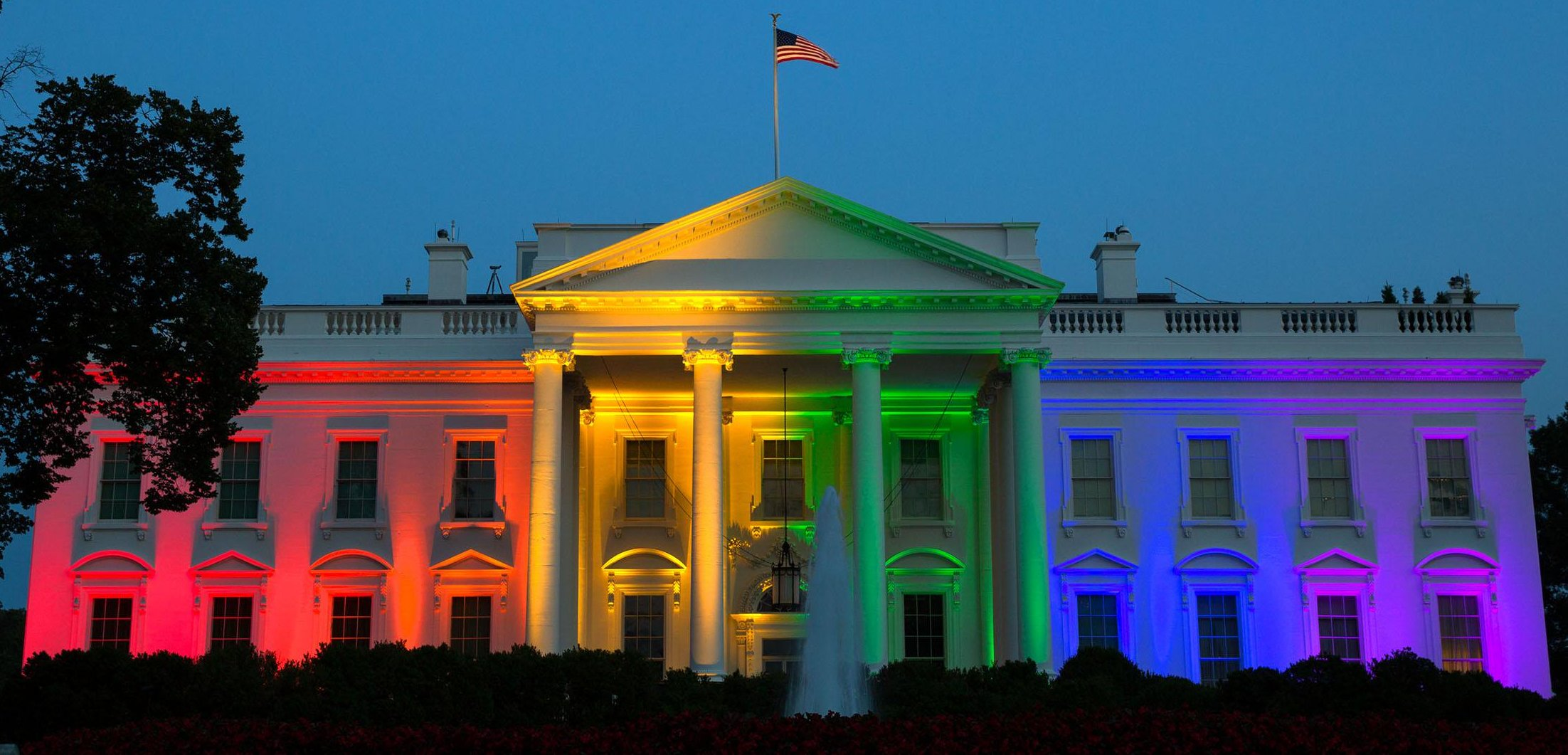 The White House lit with the LGBT rainbow flag in celebration of the passing of same-sax marriage